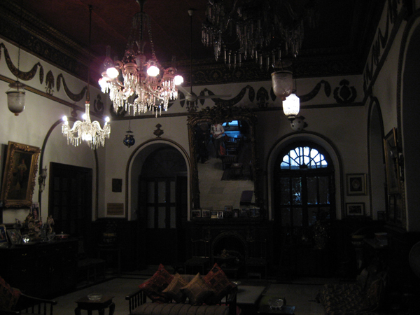 The Family Room at the Chunnamal family. Chandeliers on the ceilings and gold paneling can be seen on the walls.